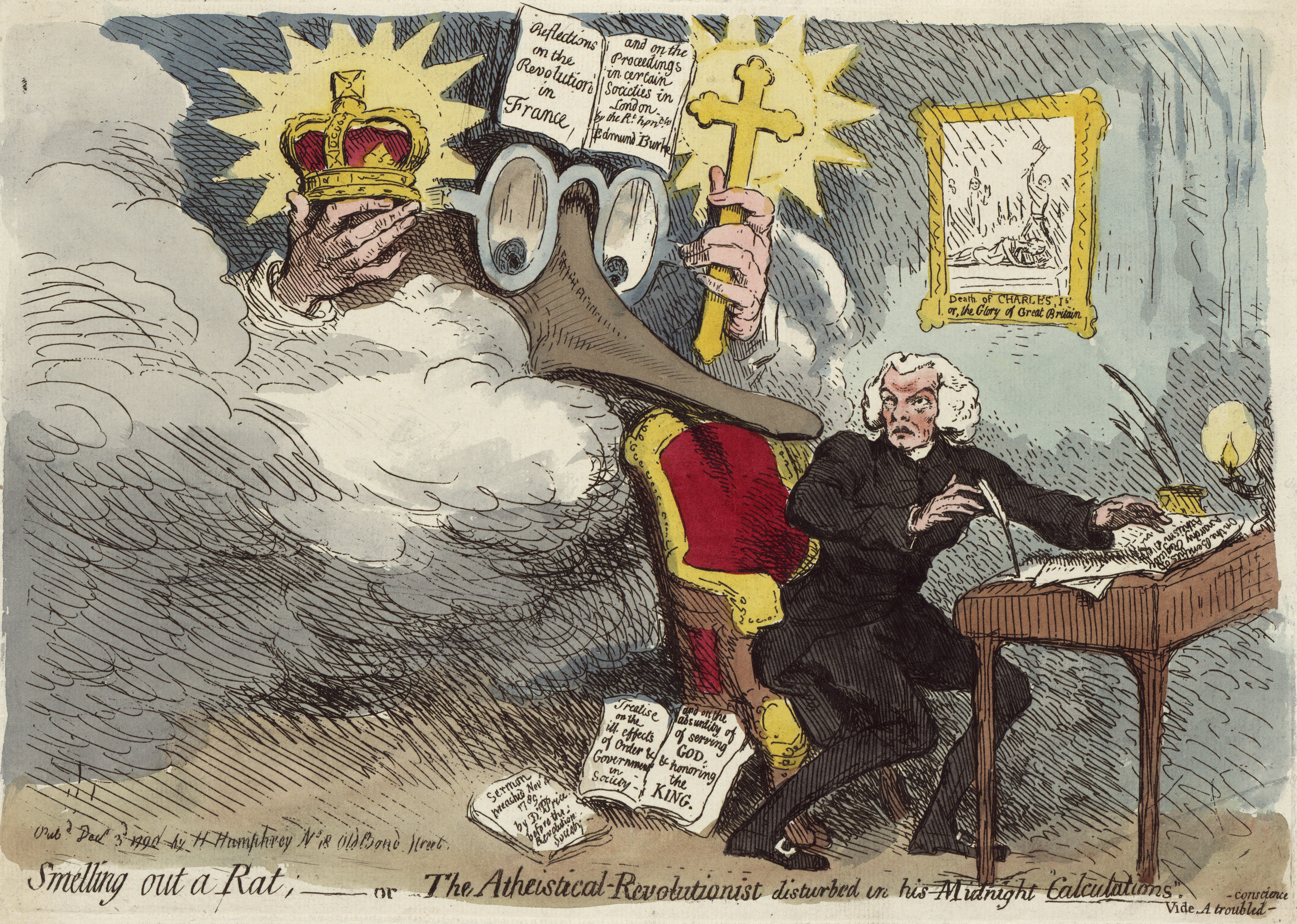 Print shows Richard Price seated at a desk, he turns to look over his right shoulder at a vision of an enormous Edmund Burke, his spectacles, nose, and hands emerge from the haze, a crown in one hand and a cross in the other, on his head an open copy of his "Reflections on the Revolution in France...." Hanging on the wall is an illustration of the beheading of Charles I titled, "Death of Charles I, or the Glory of Great Britain." PUBLISHER: H. Humphrey No. 18 Old Bond Street, London At end of title: Vide a troubled--conscience.